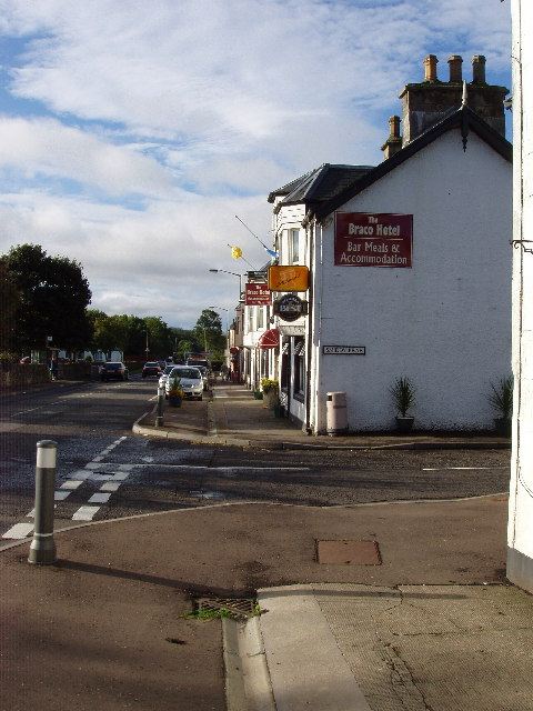 Looking South along Main Street, Braco